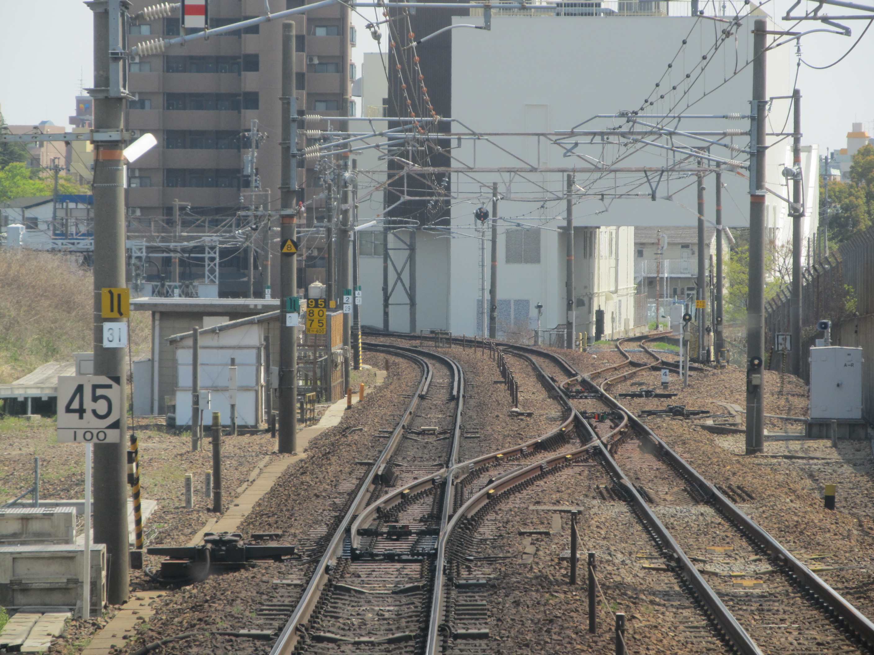 Central Japan Railway Chūō Line Sannō Signal Box